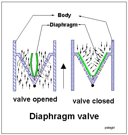 diaphragm valve